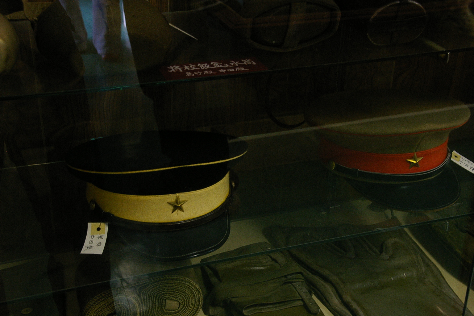 Imperial Japanese Army regulation cap.